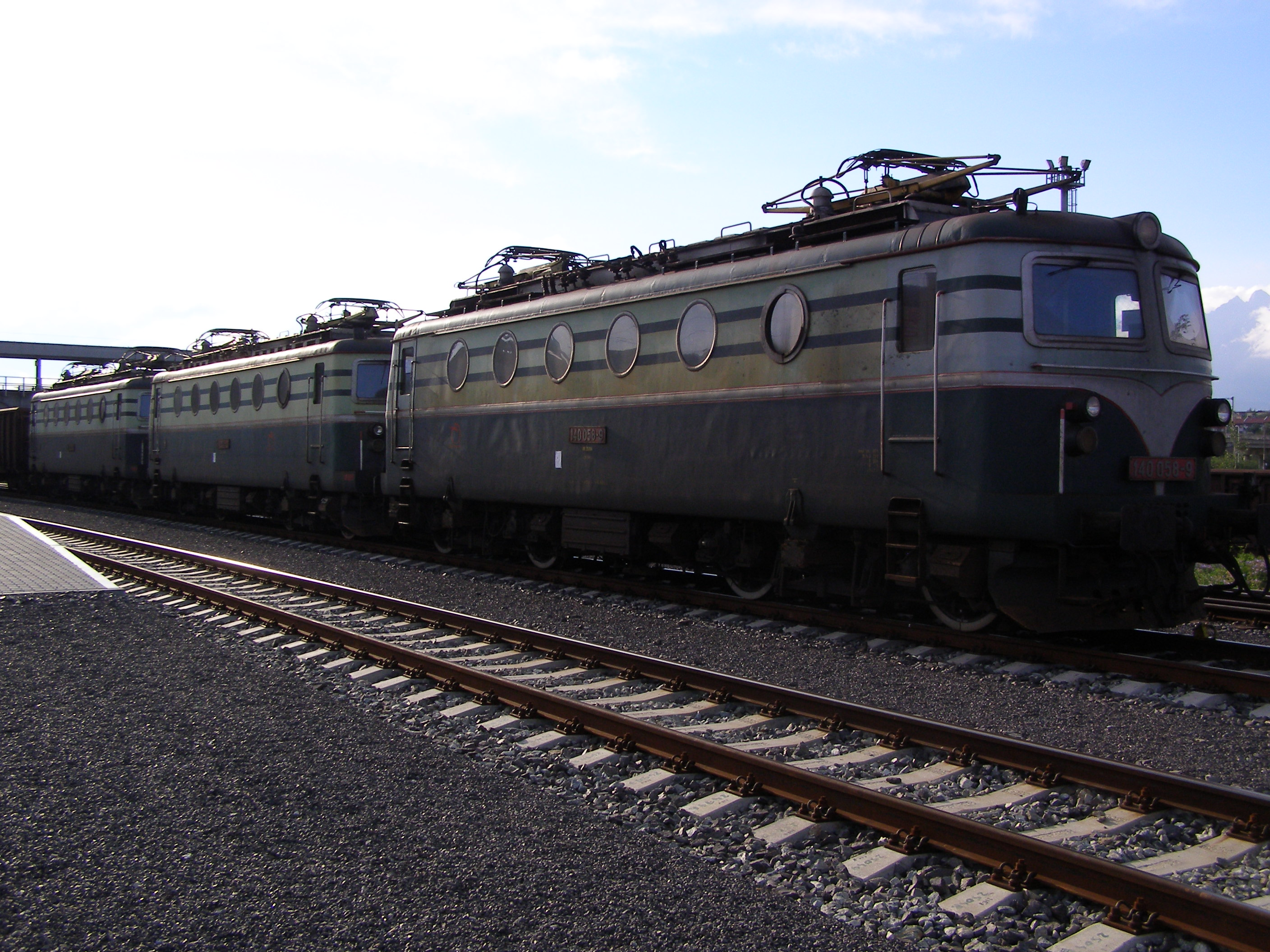 Class 140 ZSSK in Poprad-Tatry